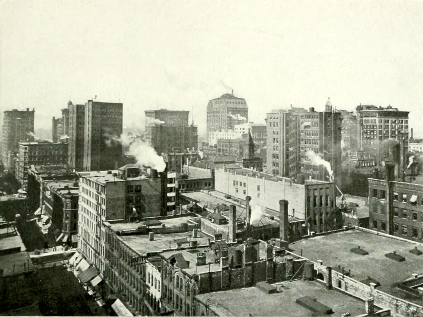 A photograph of the "heart" of Chicago.